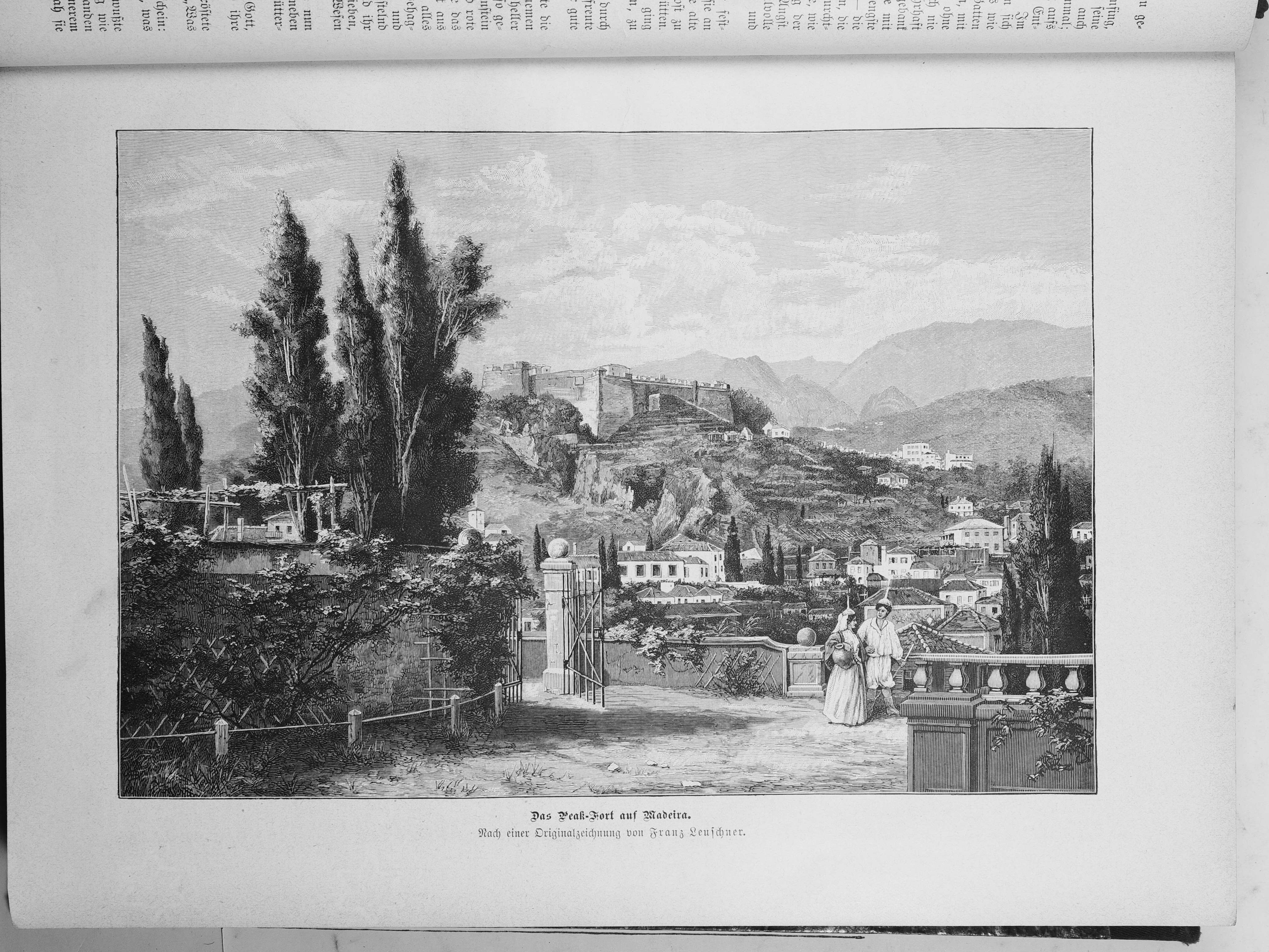 Page 33 from journal Die Gartenlaube for 1895. Extracted image (if any): File:Die Gartenlaube (1895) b 033.jpg - hi res, ~2.5 MB.